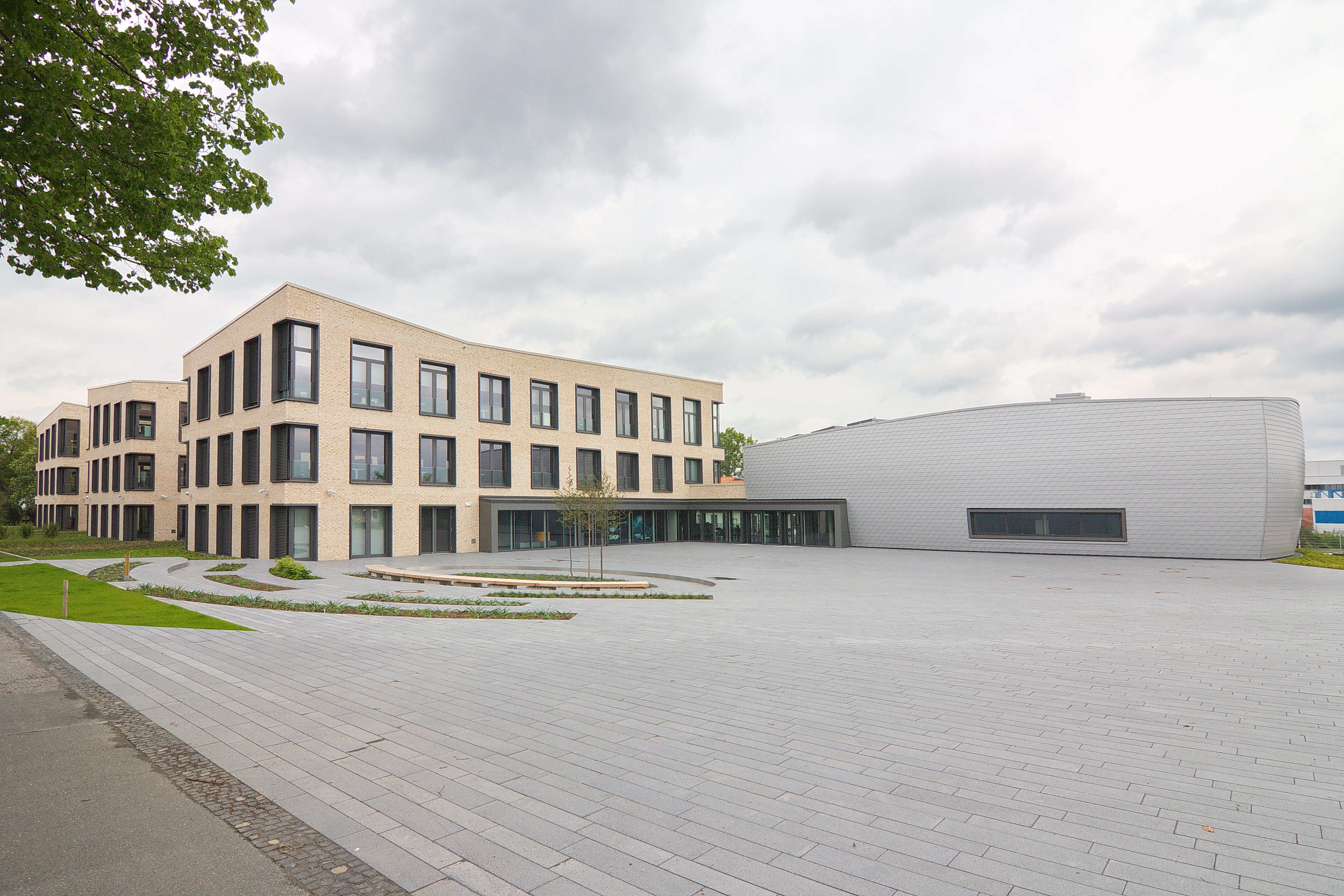 Sennheiser Innovation Campus in Wennebostel (Wedemark), Niedersachsen, Deutschland.